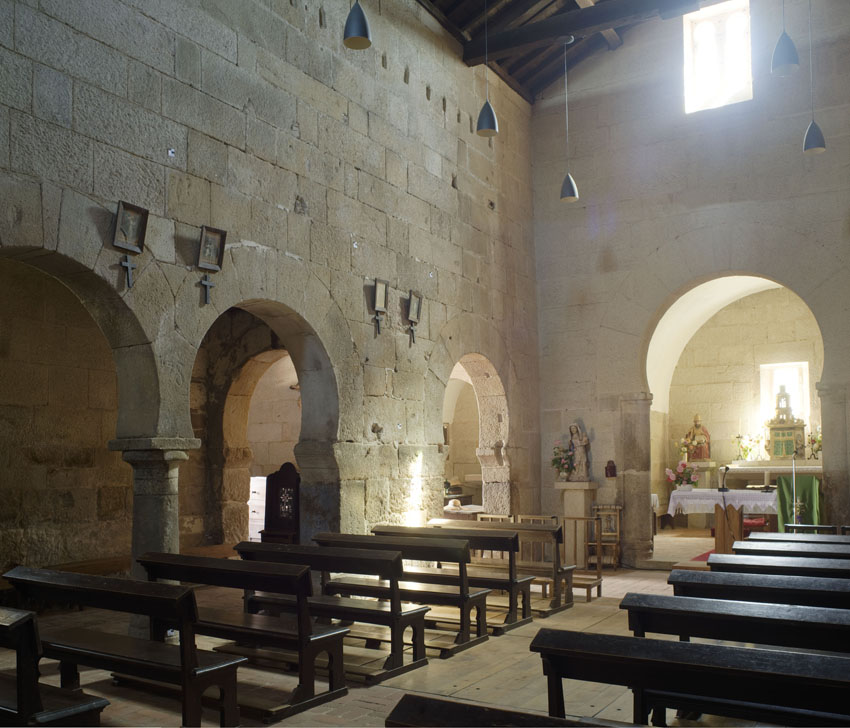 This file was uploaded for Wiki Loves Monuments in Portugal with the unique identifier 70268.